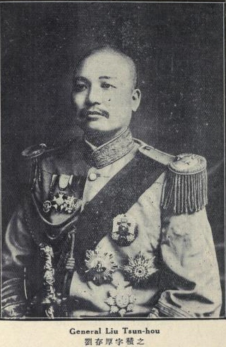 Liu Cunhou, Jizhi (1885 - 1960)